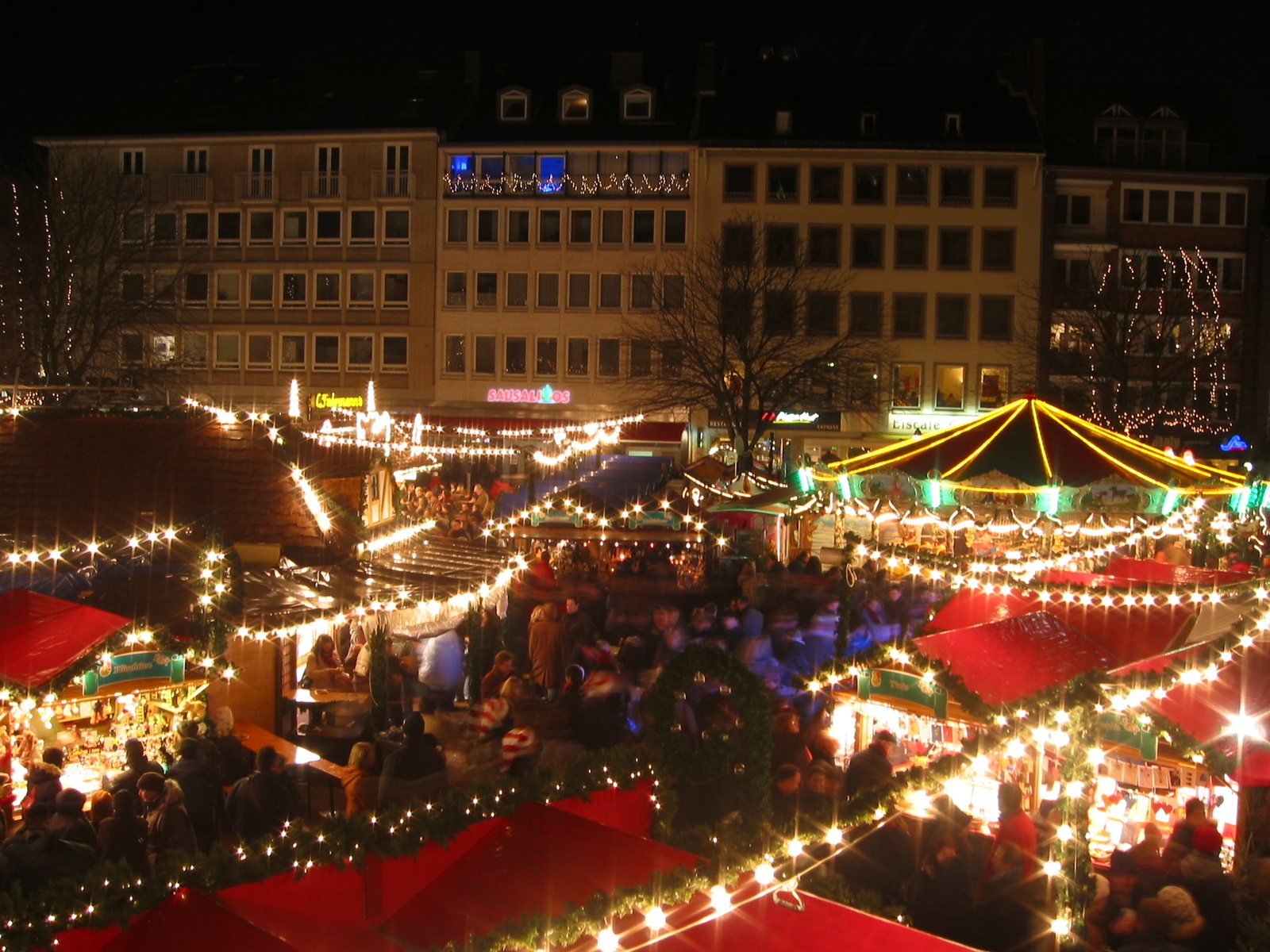 Overview over the Aachener Weihnachtsmarkt at the marketplace